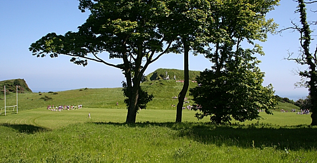 Sports Day I glimpsed the crosses on the hill as I was passing, so I stopped and looked over the wall, only to find the school sports day in full swing below.